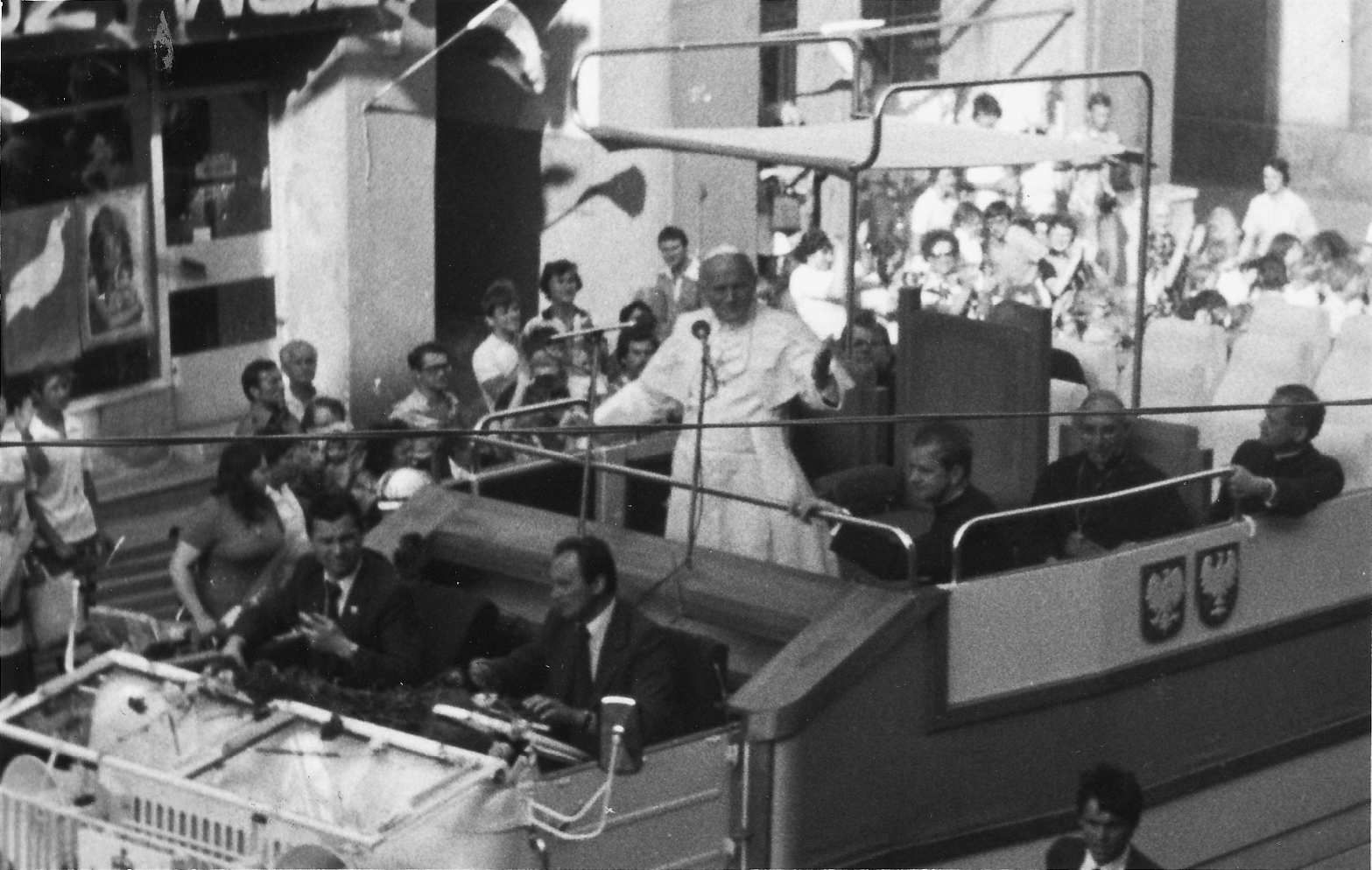 Ioannes Paulus II during his pilgrim to Poland in 1979. Photo taken in Gniezno, B. Chrobrego street.